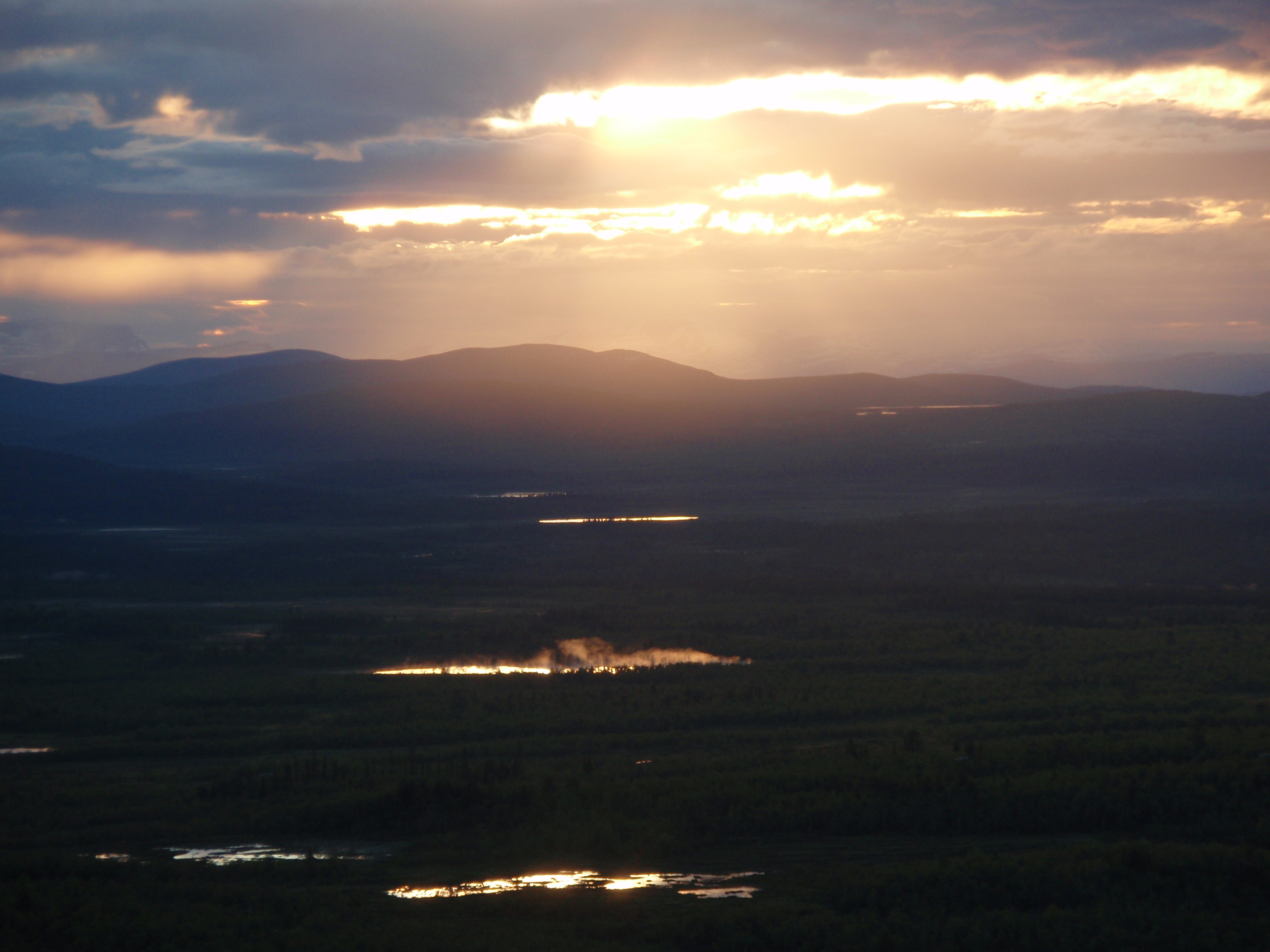 Midnight sun in june, seen from Mount Luossavaara in Kiruna